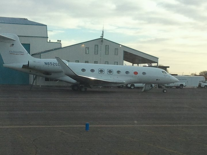 Picture of a Gulfstream G650 that crashed on April 2nd, 2011. Image taken on March 11th, 2011 in Roswell, NM.